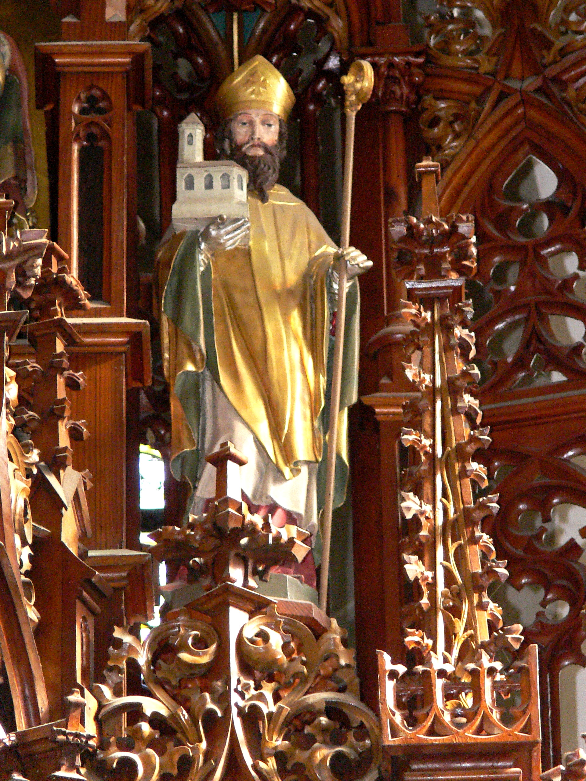 Haslach an der Mühl ( Upper Austria ). Saint Nicholas parish church - High altar ( 1901 ) - Bishop Altmann of Passau.